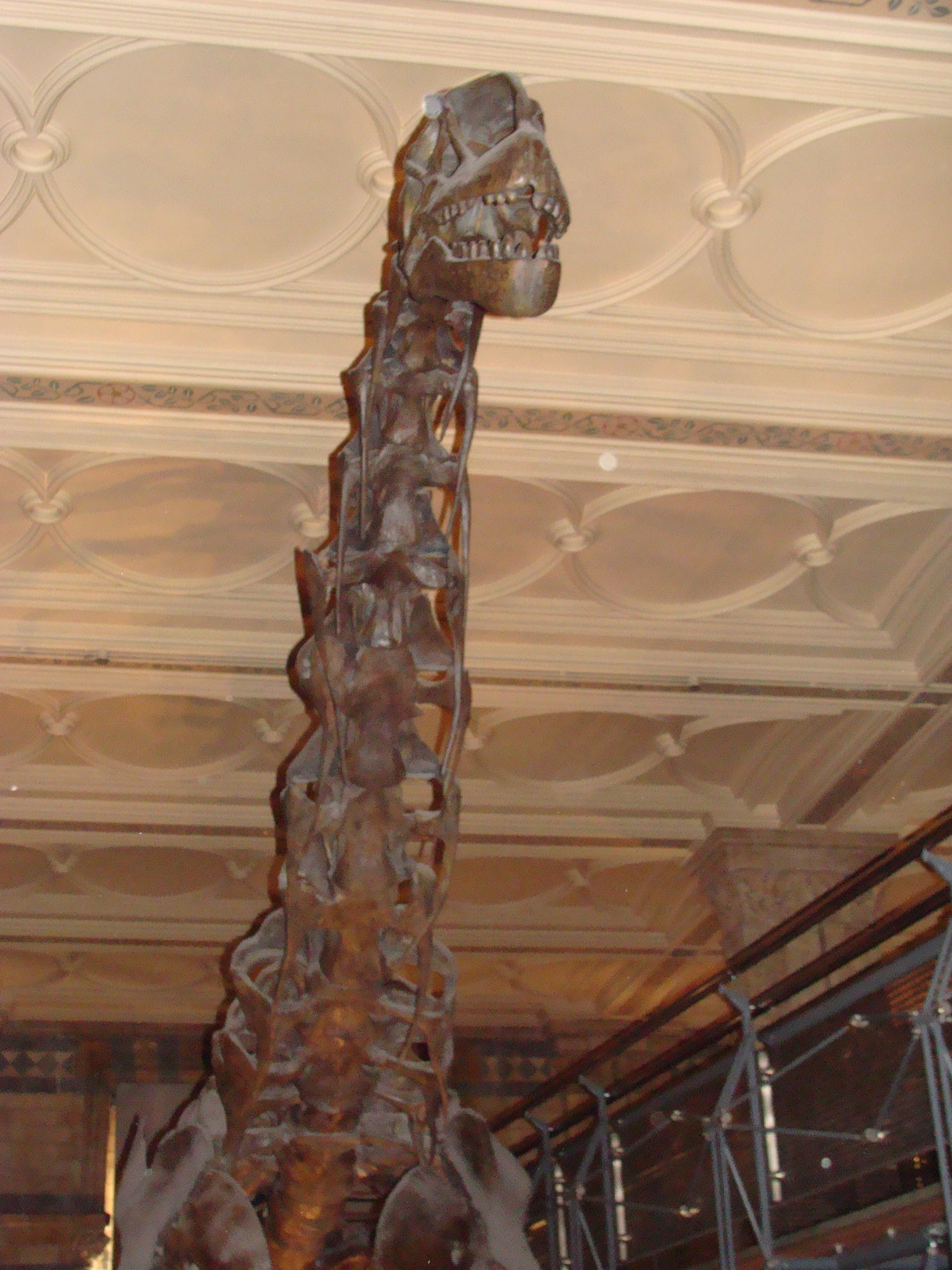 Camarasaurus in the Natural History Museum of London